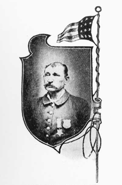 Landsman William R. Pelham, United States Navy. Halftone reproduction of a photograph, published in Deeds of Valor, Volume II, page 72, by the Perrien-Keydel Company, Detroit, 1907. William R. Pelham received the Medal of Honor for his conduct on board USS Hartford during the Battle of Mobile Bay, 5 August 1864.